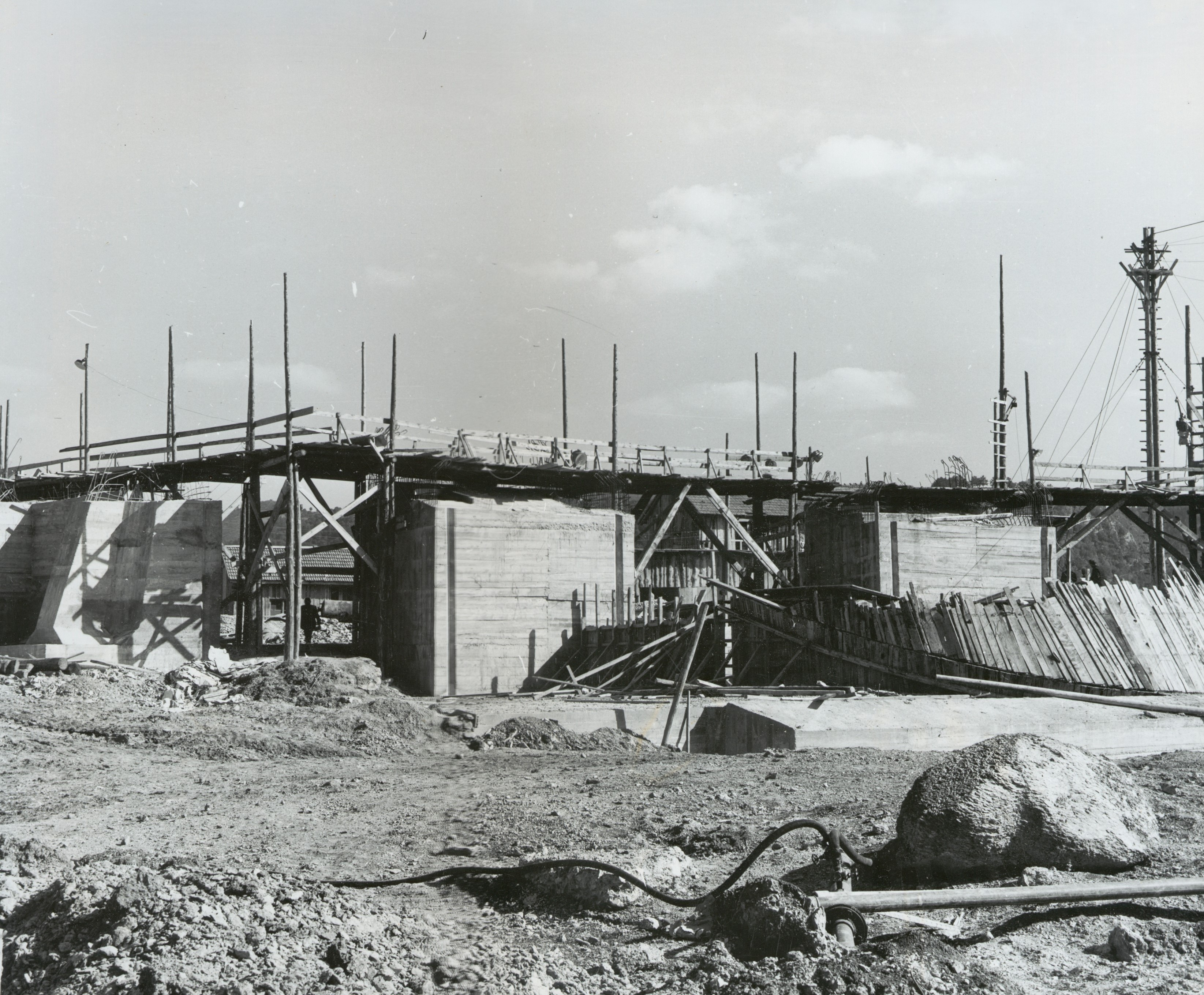 Overflow on the dam Kokin Brod under construction.